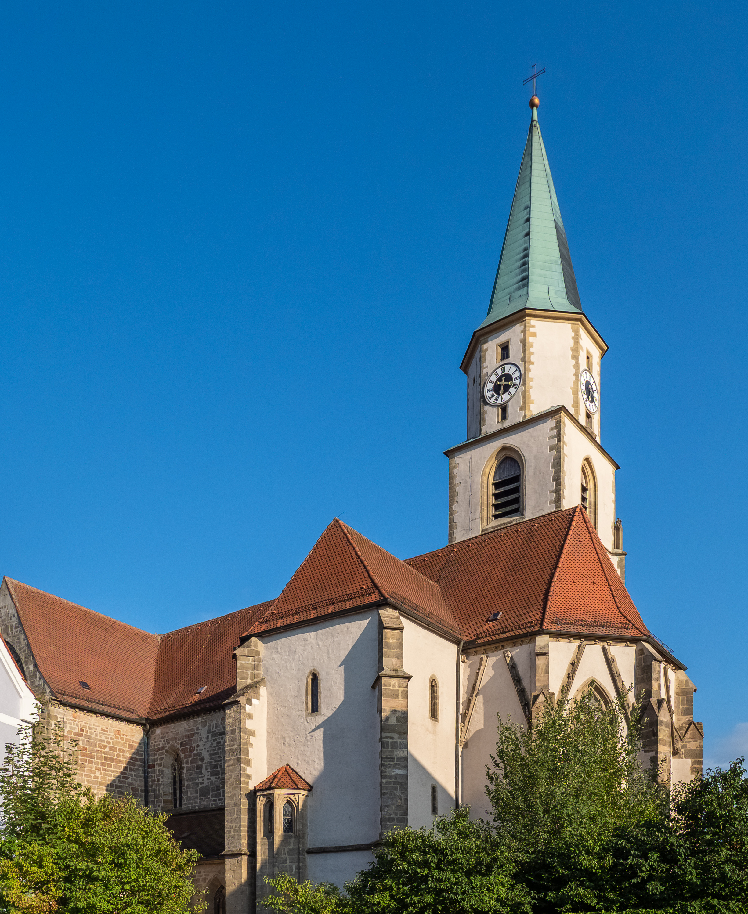 St. John the Baptist parish church in Naabburg